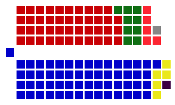 Allocation of seats in 49th New Zealand Parliament from the 2008 general election